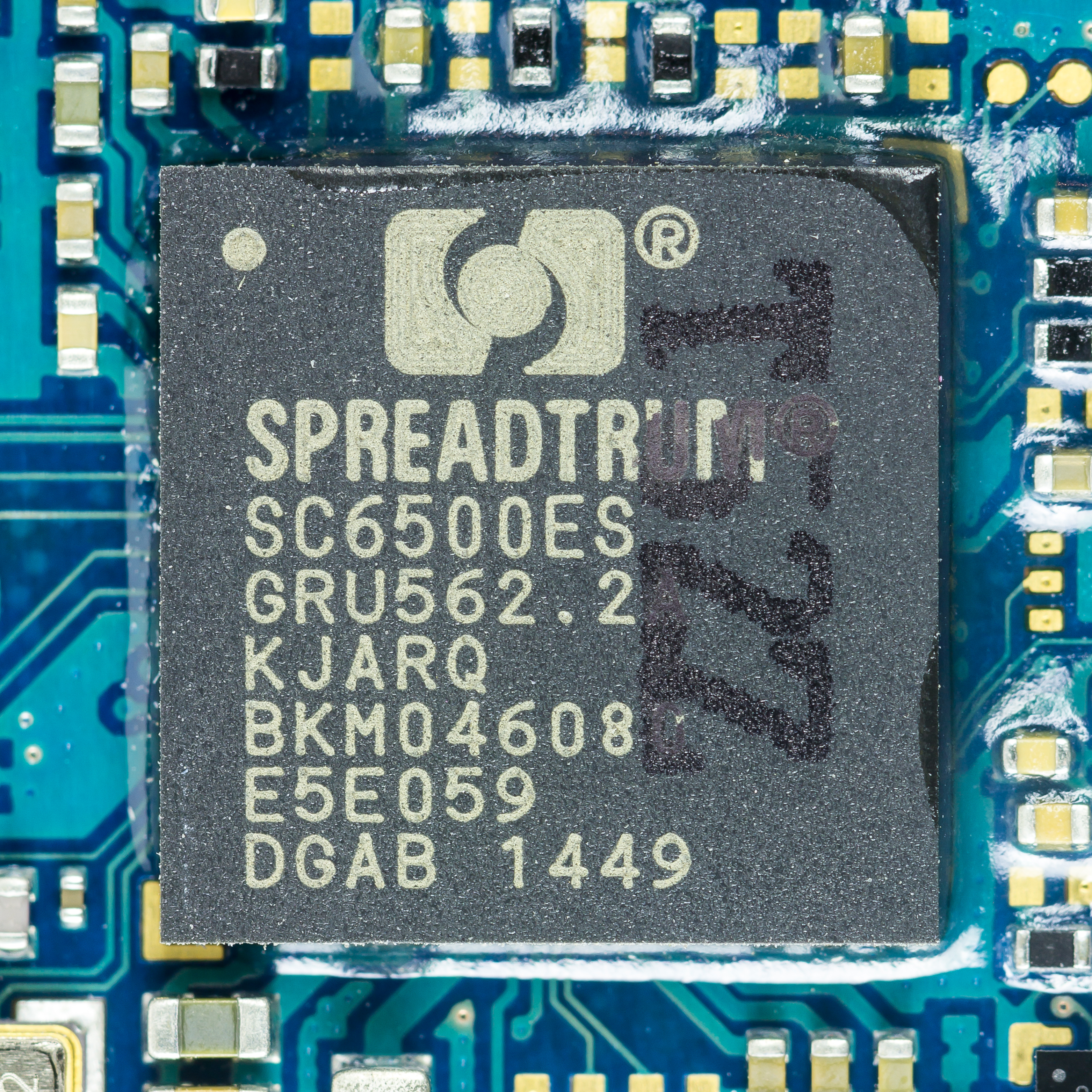 Samsung E1200i - Spreadtrum SC6500ES